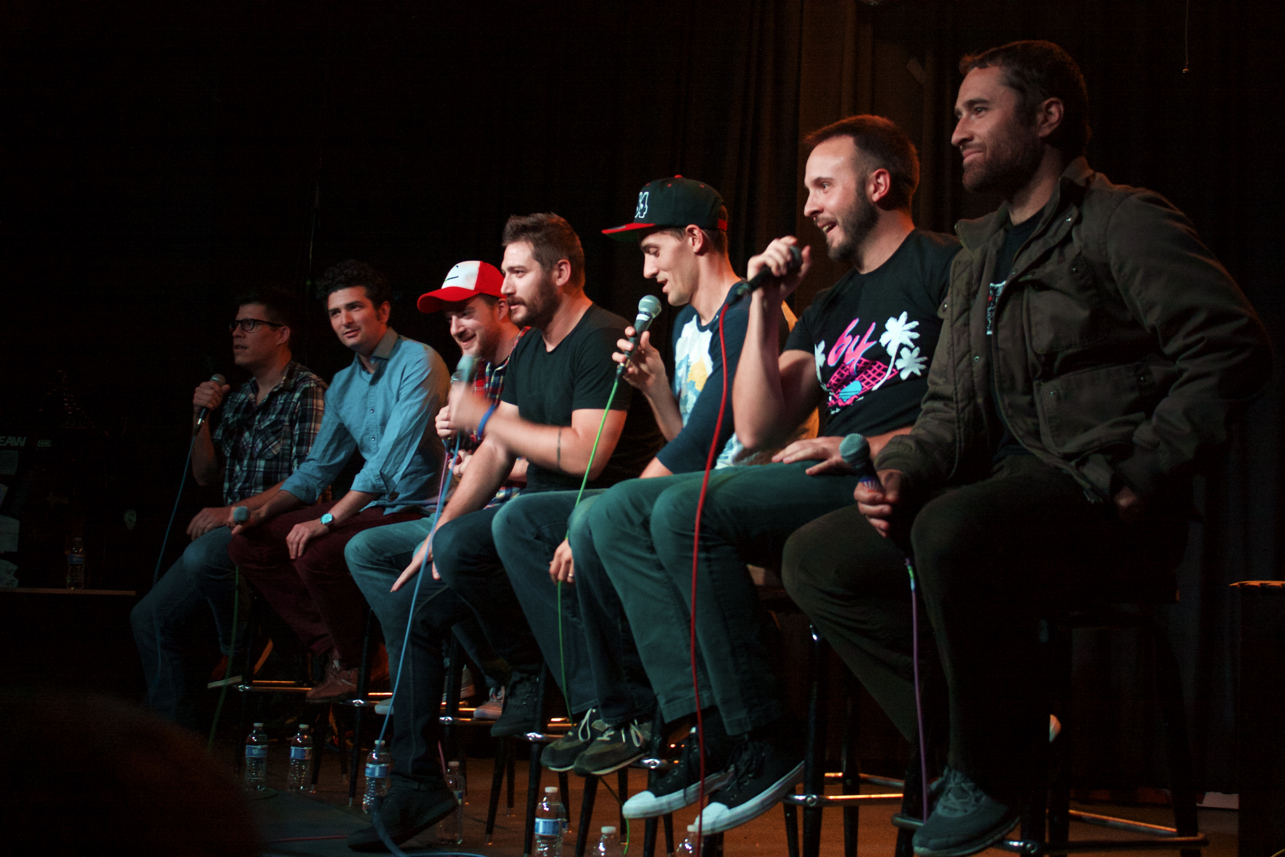 Lawrence Sonntag, Joel Rubin, Sean Poole, Adam Kovic, James Willems, Bruce Greene and Matt Peake speaking at the "Play Inside Funhaus!" panel at PAX Prime 2015.